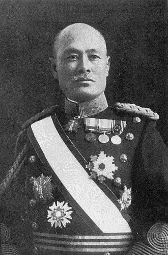 Sadayoshi Ando